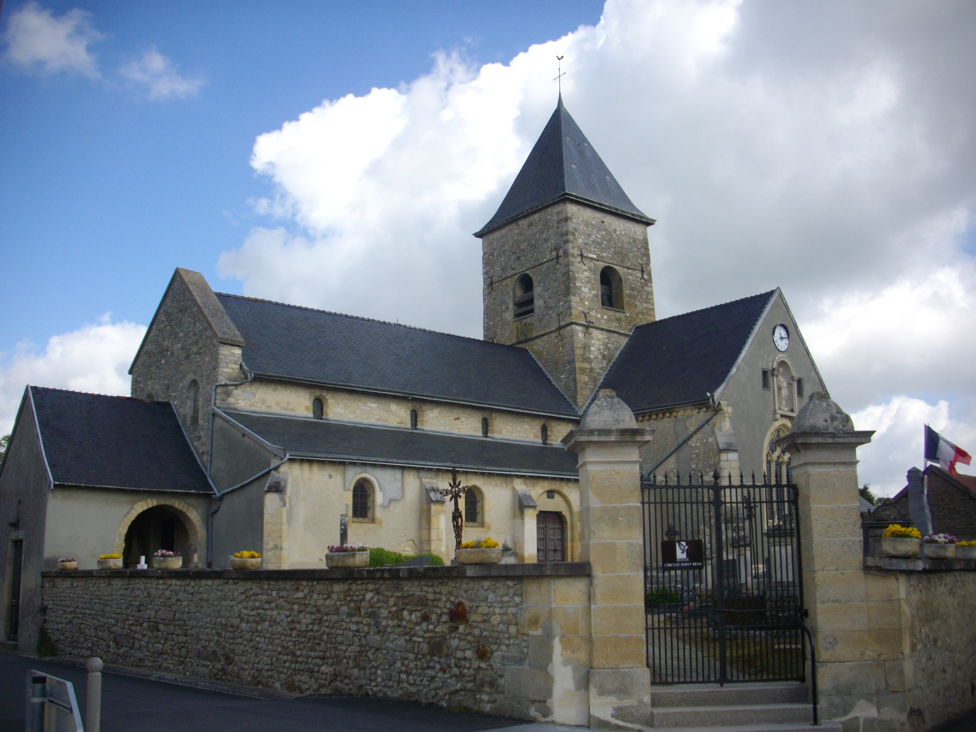 Saint Remigius church of Les Mesneux (Marne, France)